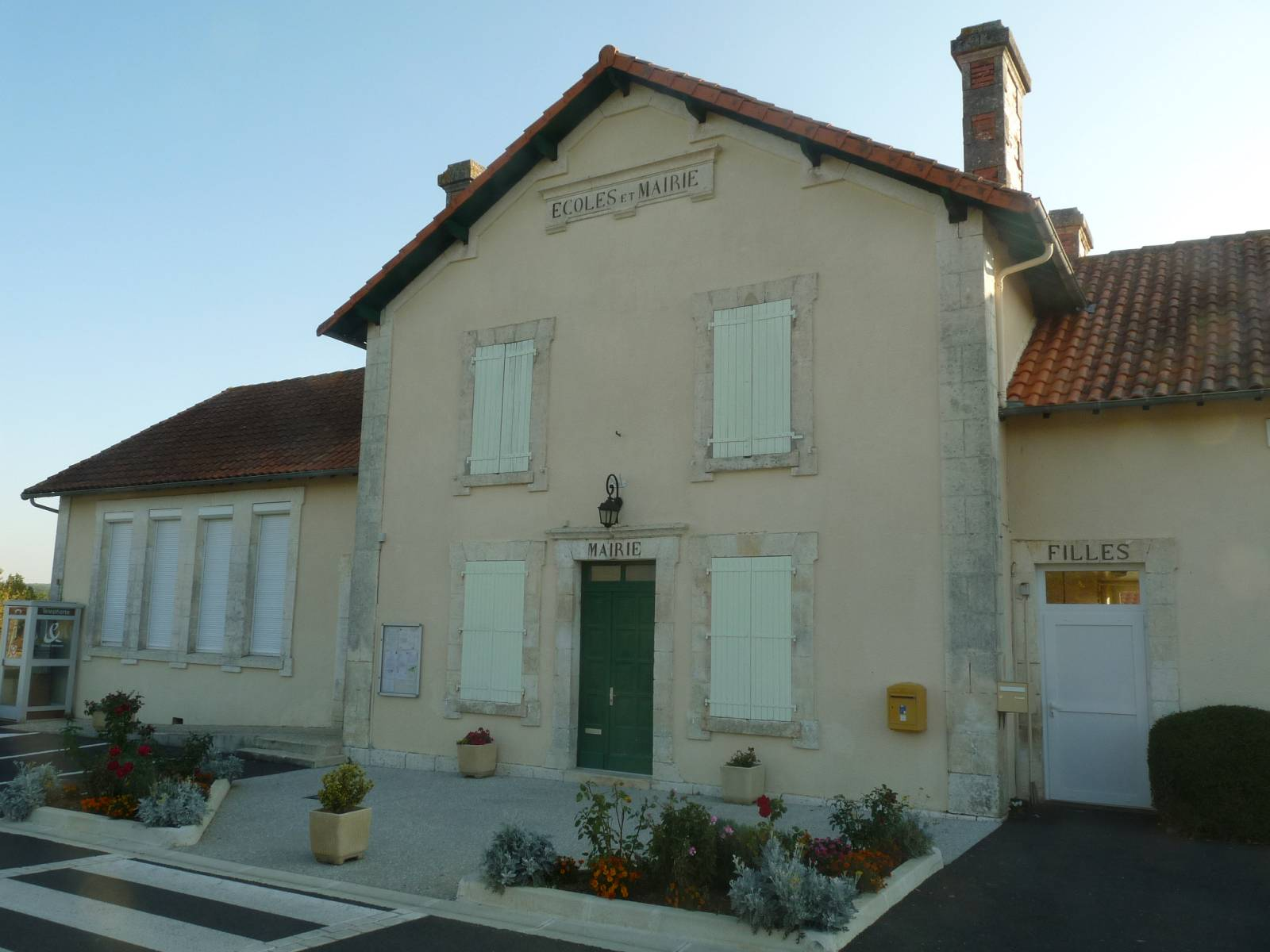 town hall of Les Pins, Charente, SW France